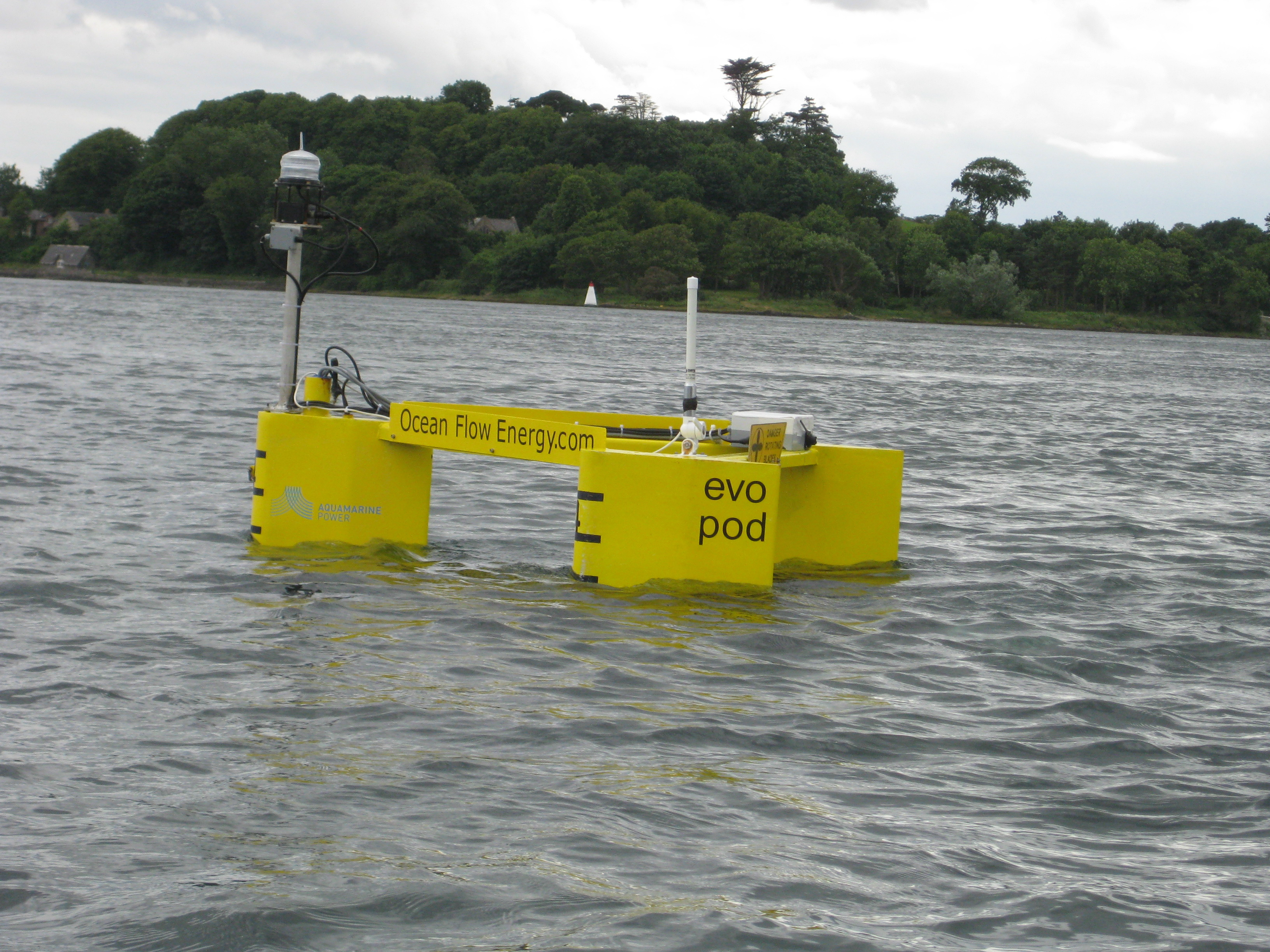 Evopod Tidal Turbine in operation in Strangford Lough near Portaferry, Northern Ireland, July 2009.